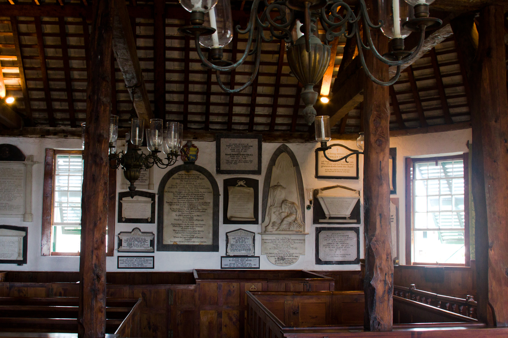 View of the one of the oldest portions of the interior of St. Peter's Church, St. George's, Bermuda. The altar is just out of frame to the right.